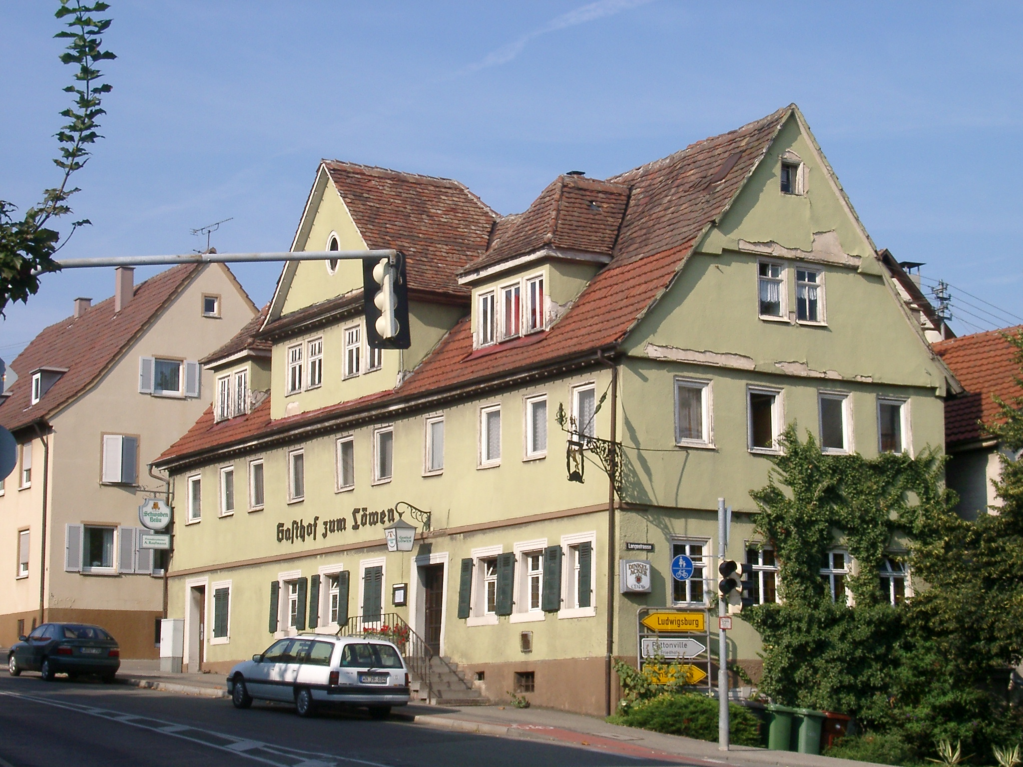 Germany, Kornwestheim Guesthouse "to the lion", "Guest house" written with long s Langes s